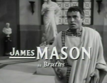 Cropped screenshot of James Mason from the trailer for the film Julius Caesar